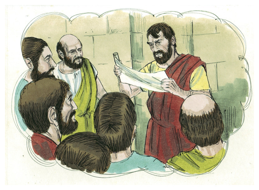 Biblical illustration of First Epistle of John Chapter 4